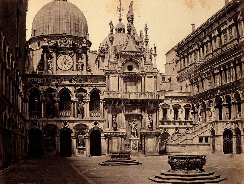 View of Venice. Albumen prints. Circa 32 x 26 cm. Provenance: The estate of Ernst August von Hannover, 3rd Duke of Cumberland.